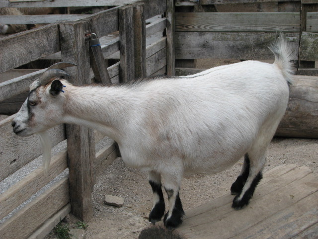 A pygmy goat standing on a log at the petting zoo area of the Akron Zoo in Akron, Ohio.